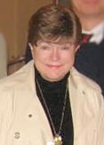 One of several participants of the Second International Conference on Game Theory and Management at Saint Petersburg State University, Saint Petersburg, Russia